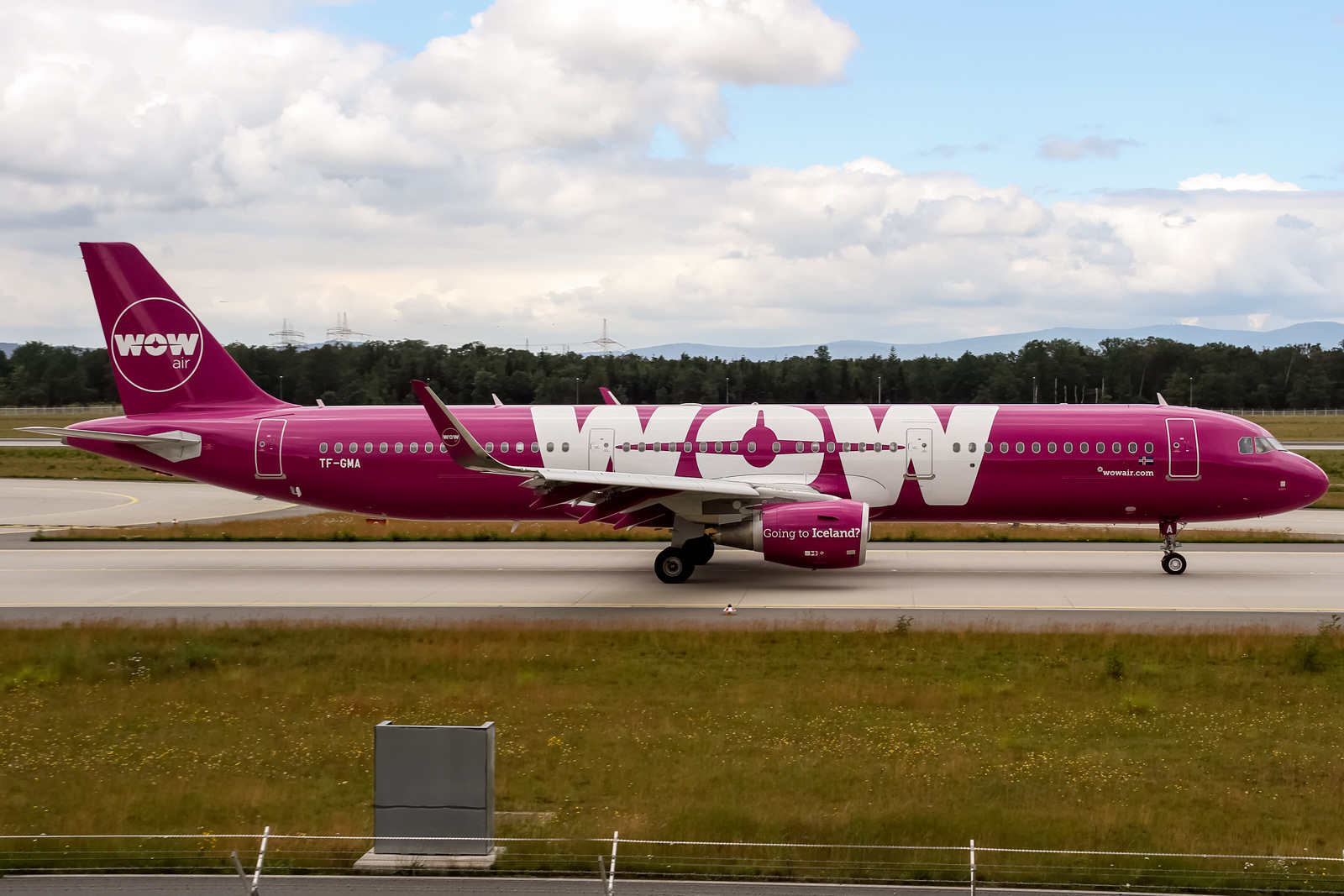 TF-GMA WOW air Airbus A321-211(WL) coming in from Reykjavik Island (BIKF) @ Frankfurt (EDDF) / 19.06.2016